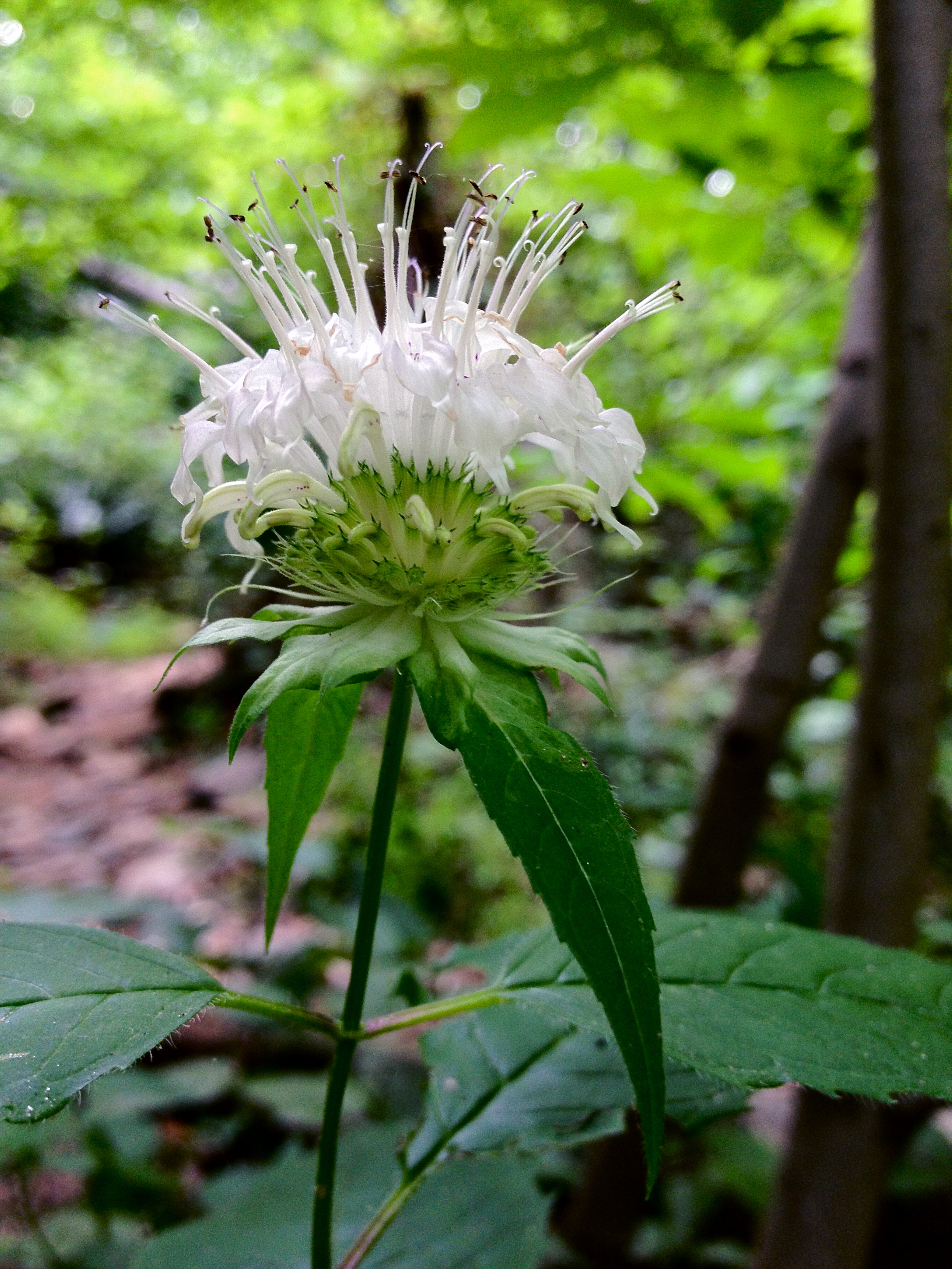 Photo of Monarda clinopodia in flower. This is a native plant growing wild in Scotts Run Nature Preserve, Fairfax county Virginia, USA. This species is a member of the Lamiaceae family.